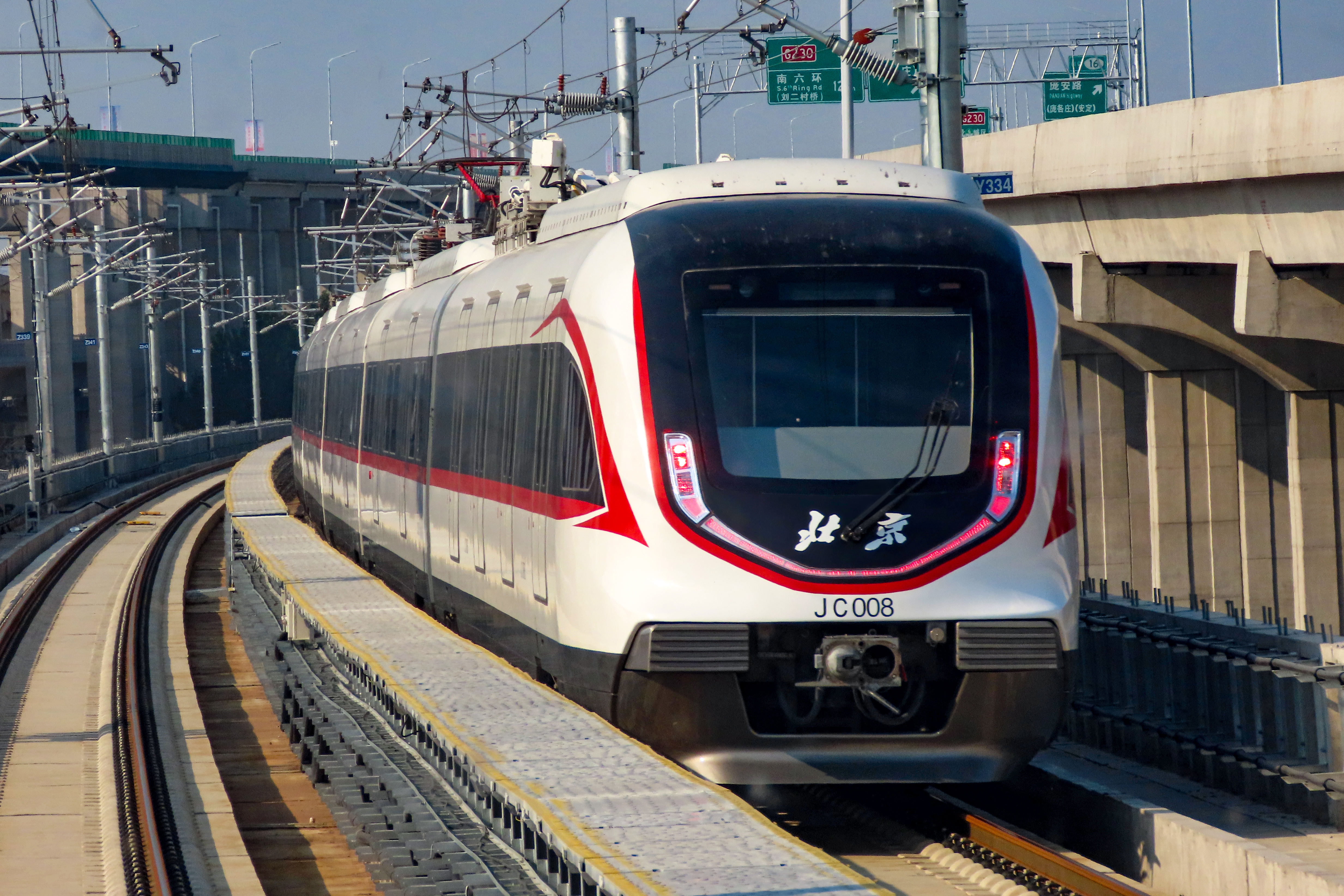 Seen crossing a portion of Panggezhuang to the north.